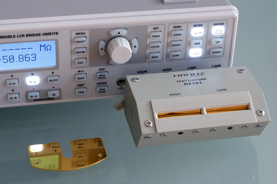 Benchtop LCR meter with fixture for lead type devices and shorting plate for calibration